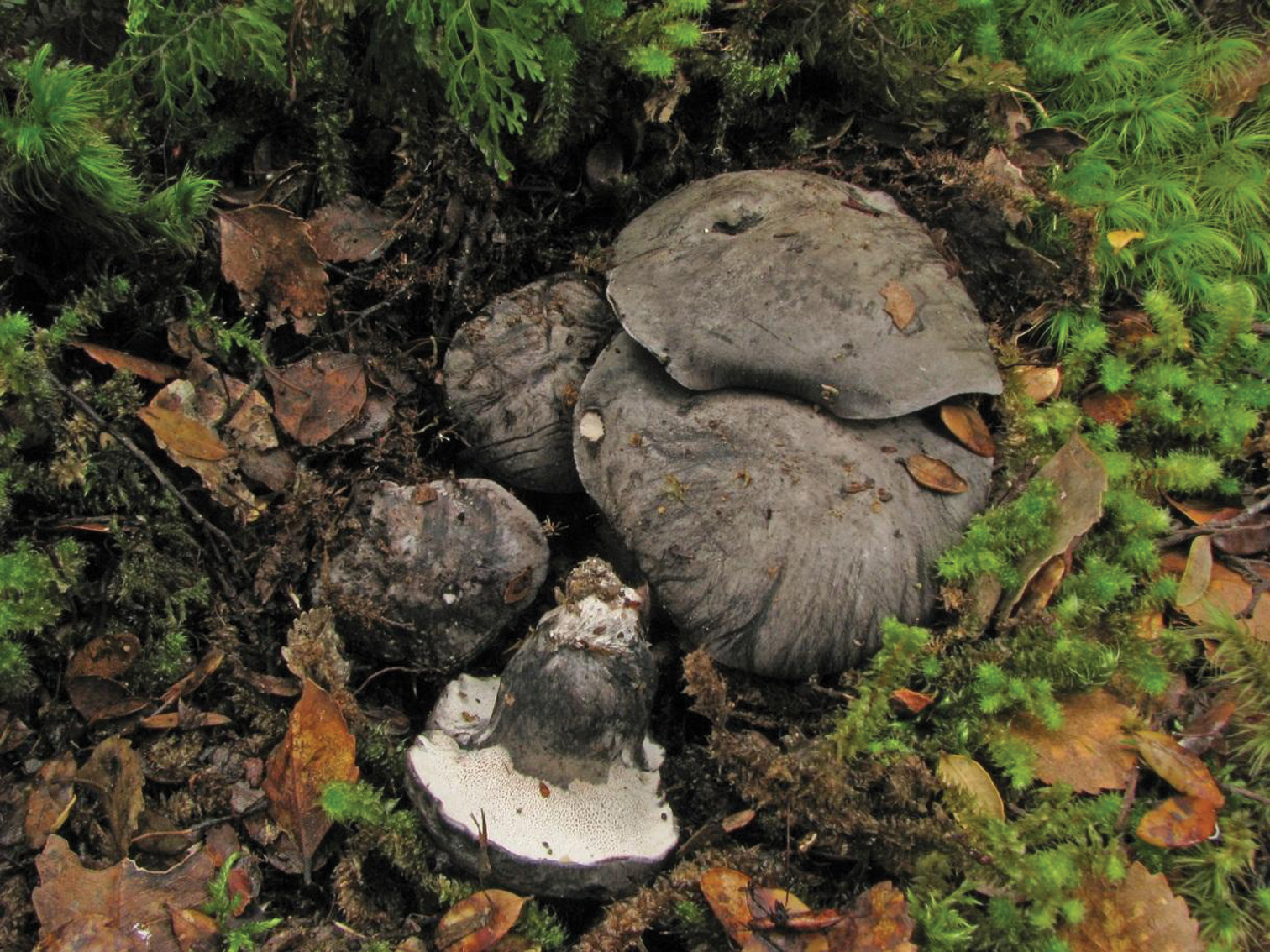 Boletopsis nothofagi in its natural habitat, Rimutaka Forest Park, New Zealand.